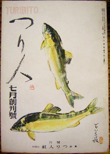 Cover of the first issue of Turibito (Tsuribito)